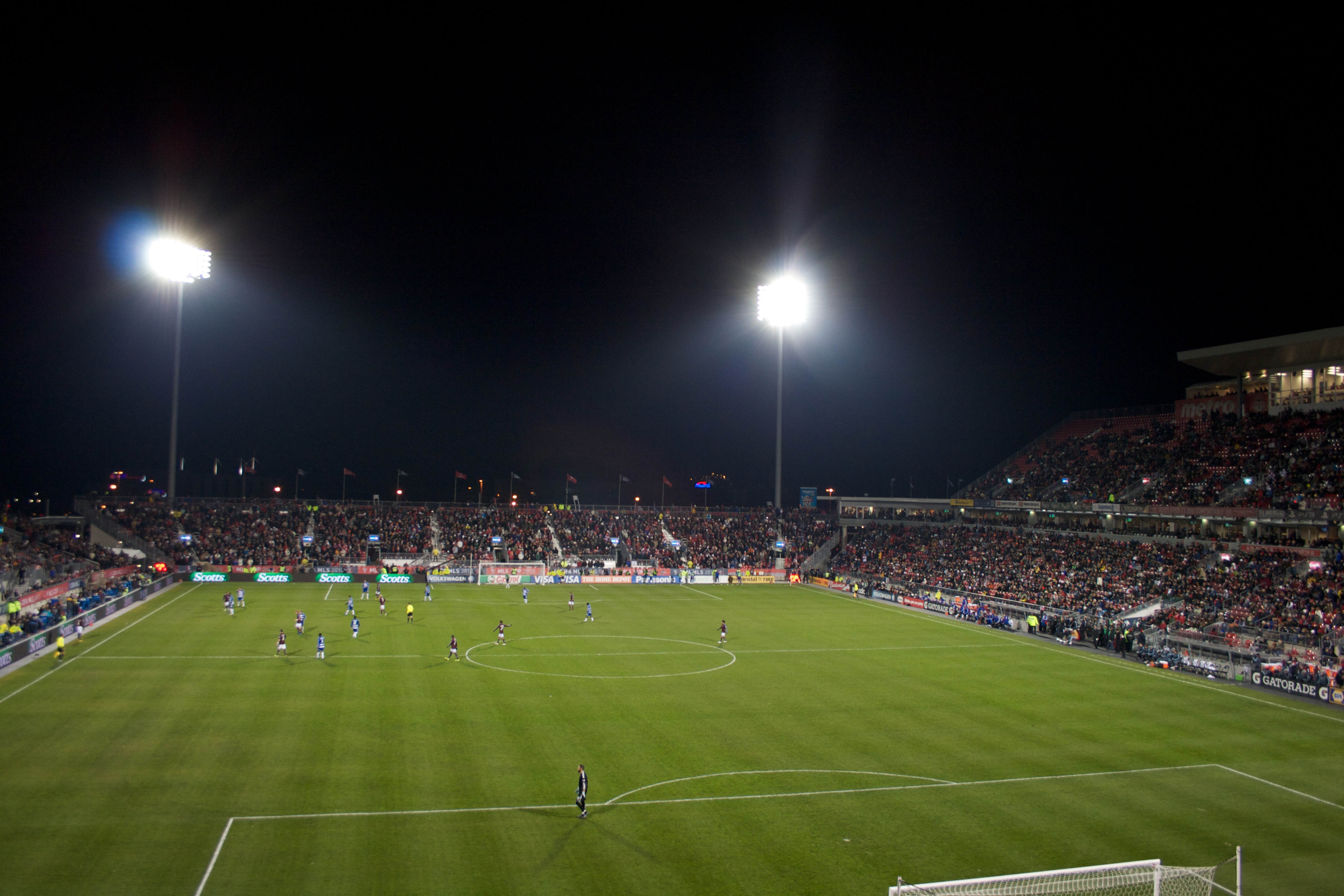 MLS Cup Final 2010. Taken at the 2010 MLS Cup Final at BMO Field in Toronto, Canada.